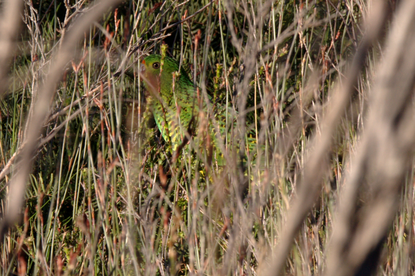 A Ground Parrot amongst vegetation.